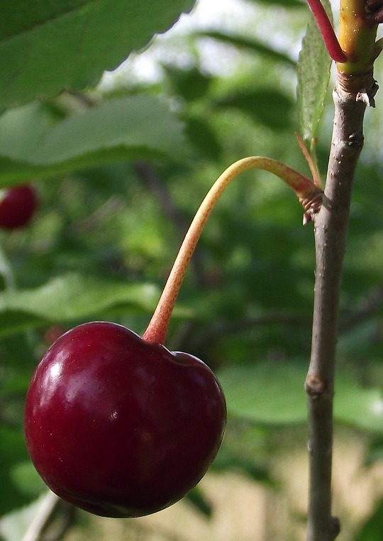 sour cherry; fruit